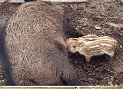 Wild boar, female with 2 young